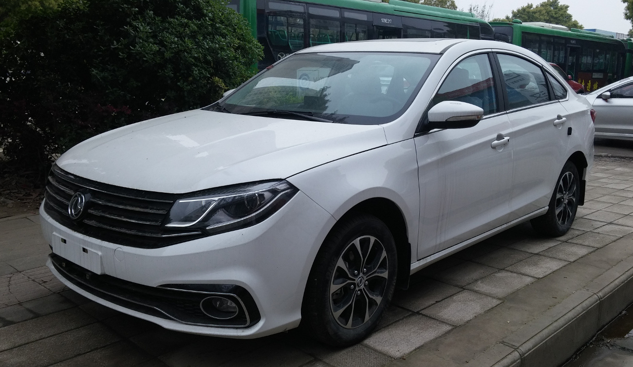 Dongfeng Fengxing Jingyi S50 facelift photographed in Wuhan, Hubei province, China.